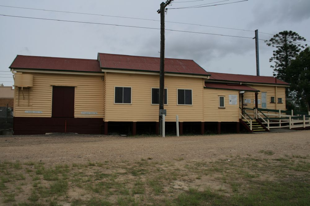 Cooroy Railway Station